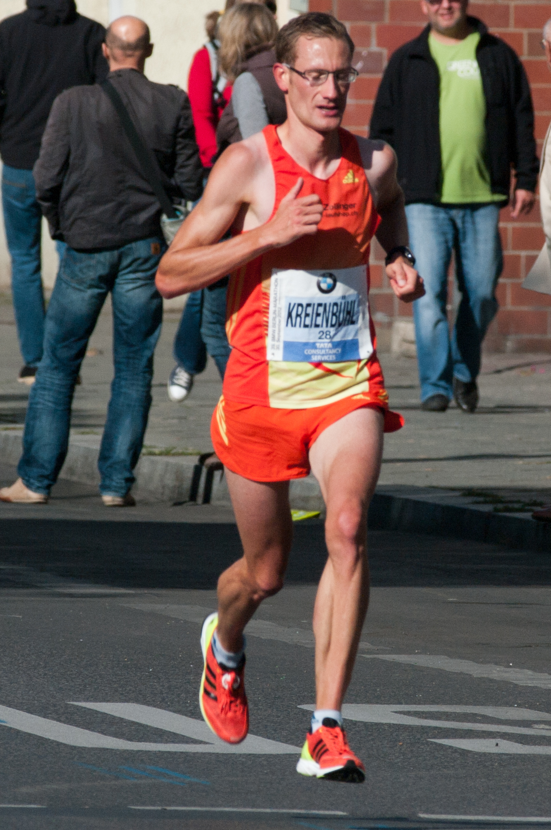 Swiss runner Christian Kreienbühl at the Berlin Marathon 2012. Here on Bülowstraße, between Kilometers 36 and 37.